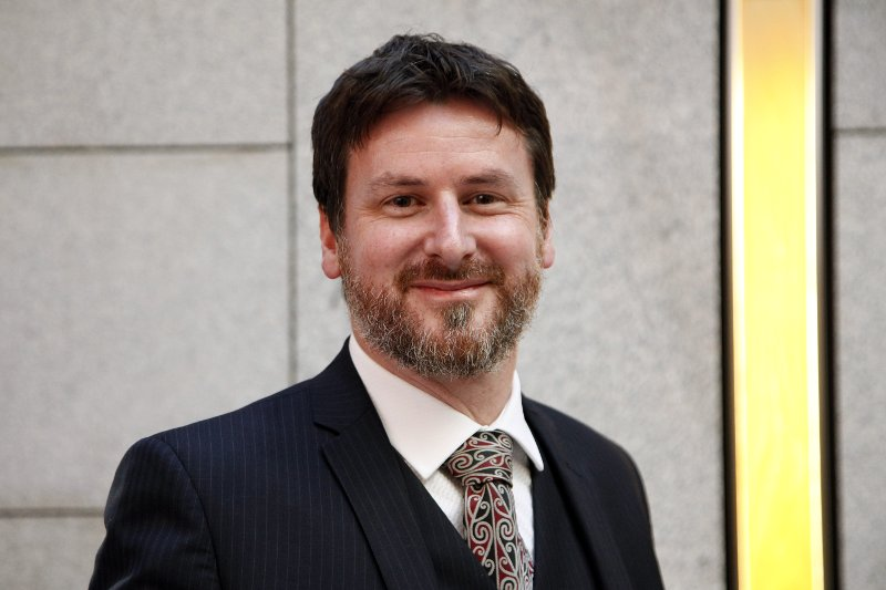 Bruce Adamson, the new Commissioner for Children and Young People whose appointment was agreed by Parliament this evening. 13 March 2017. Pic - Andrew Cowan/Scottish Parliament